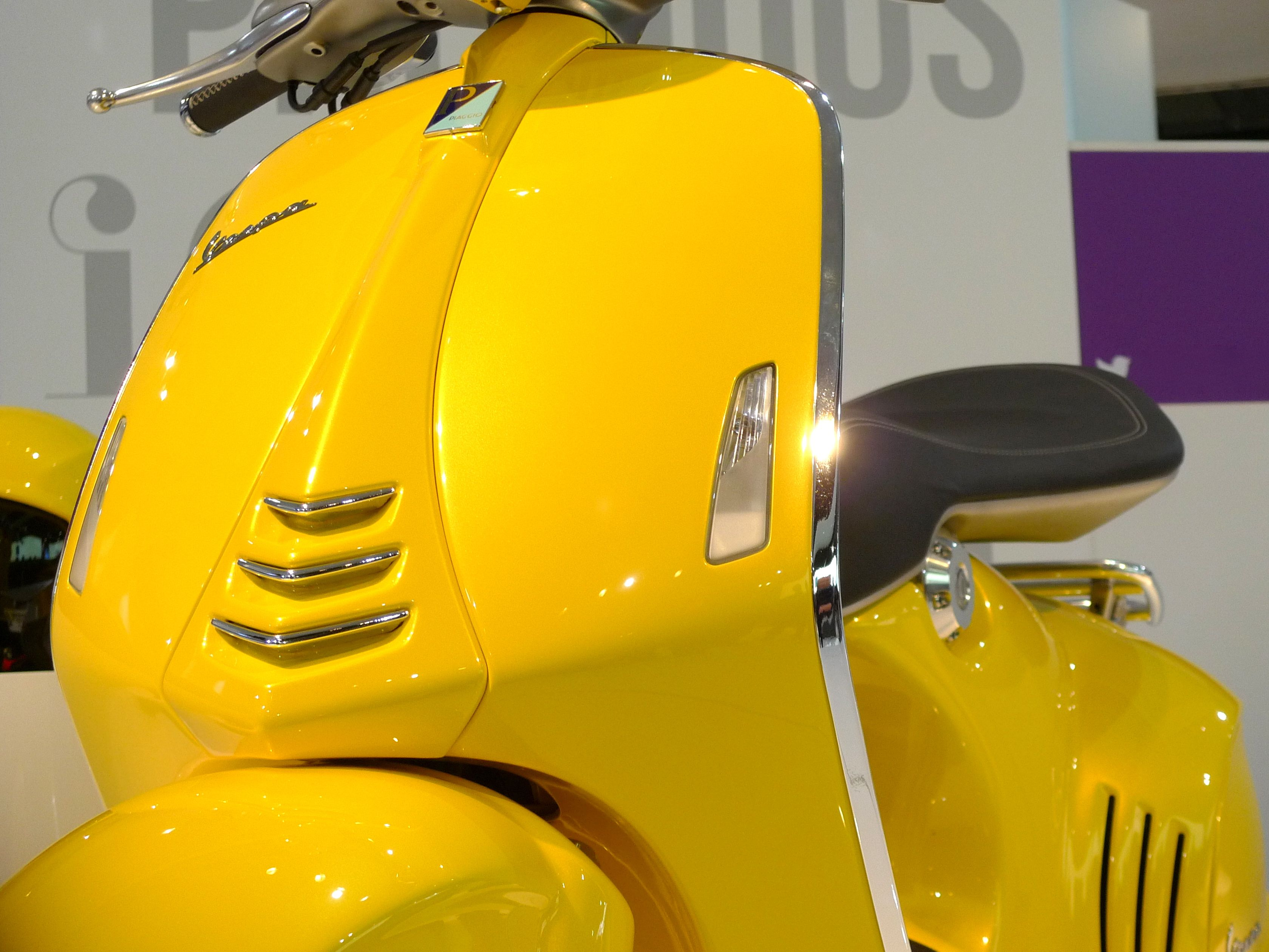 Vespa 946, front view